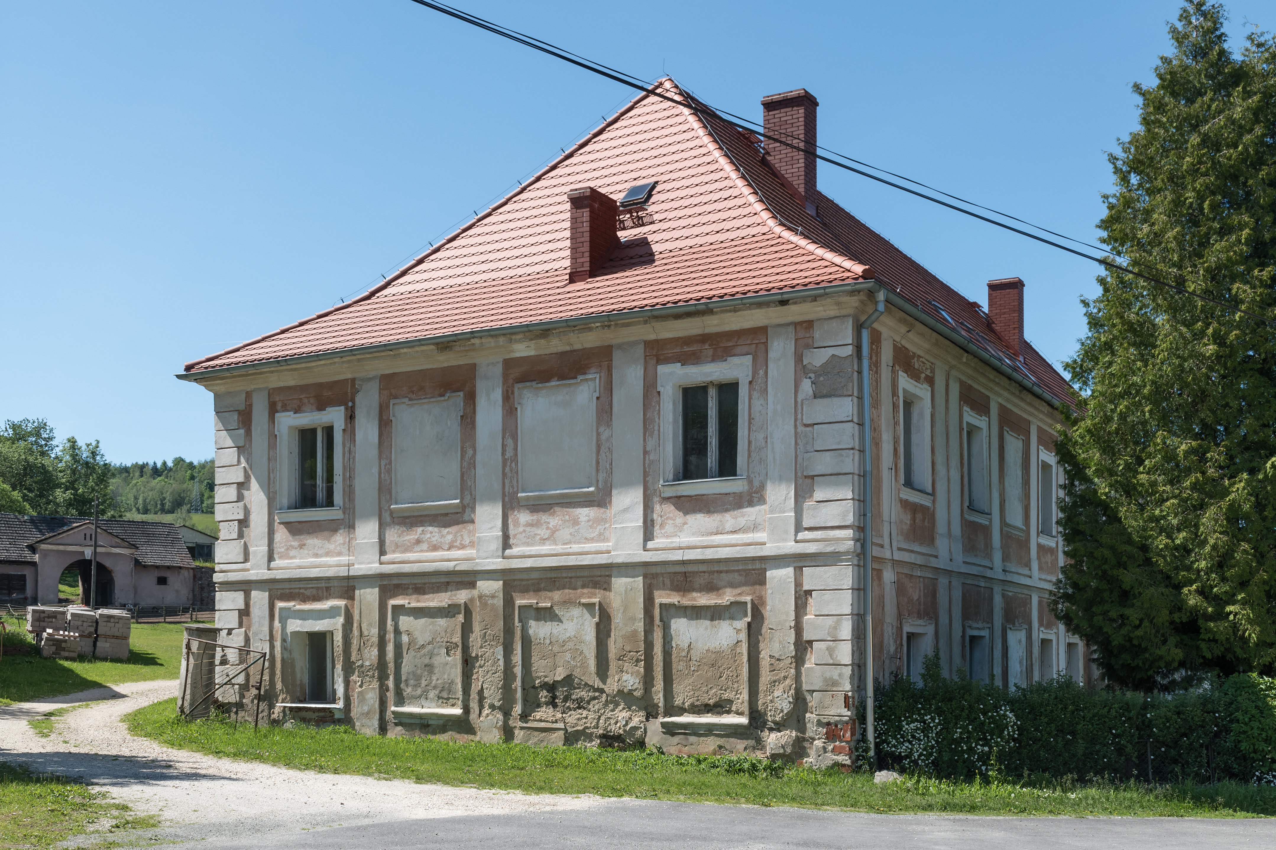 Manor in Konradów